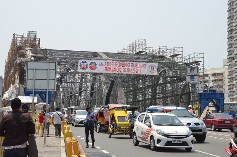 Rehabilitation of the Ayala Bridge in Manila, March 20, 2015.